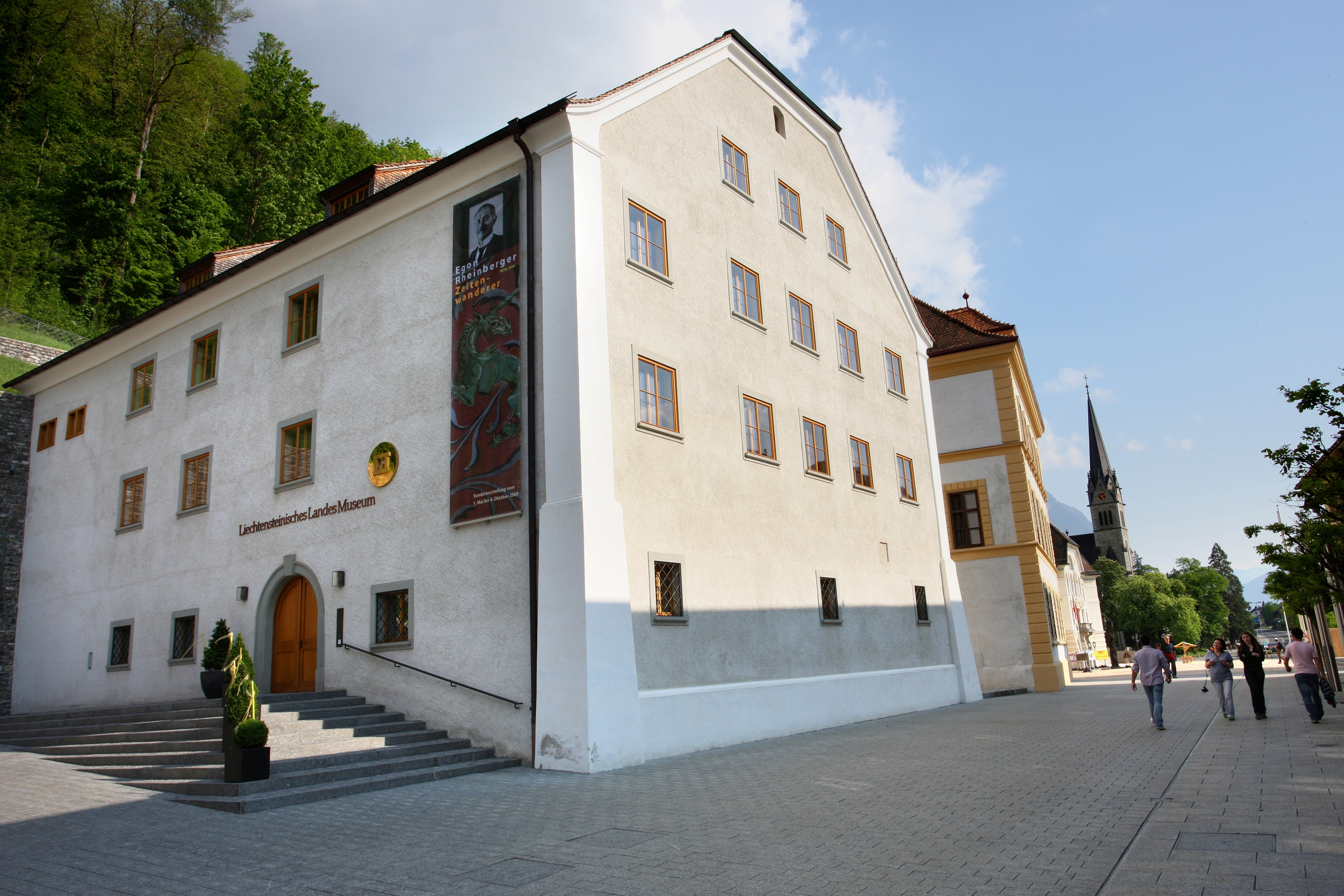 State Museum of Liechtenstein; in Vaduz